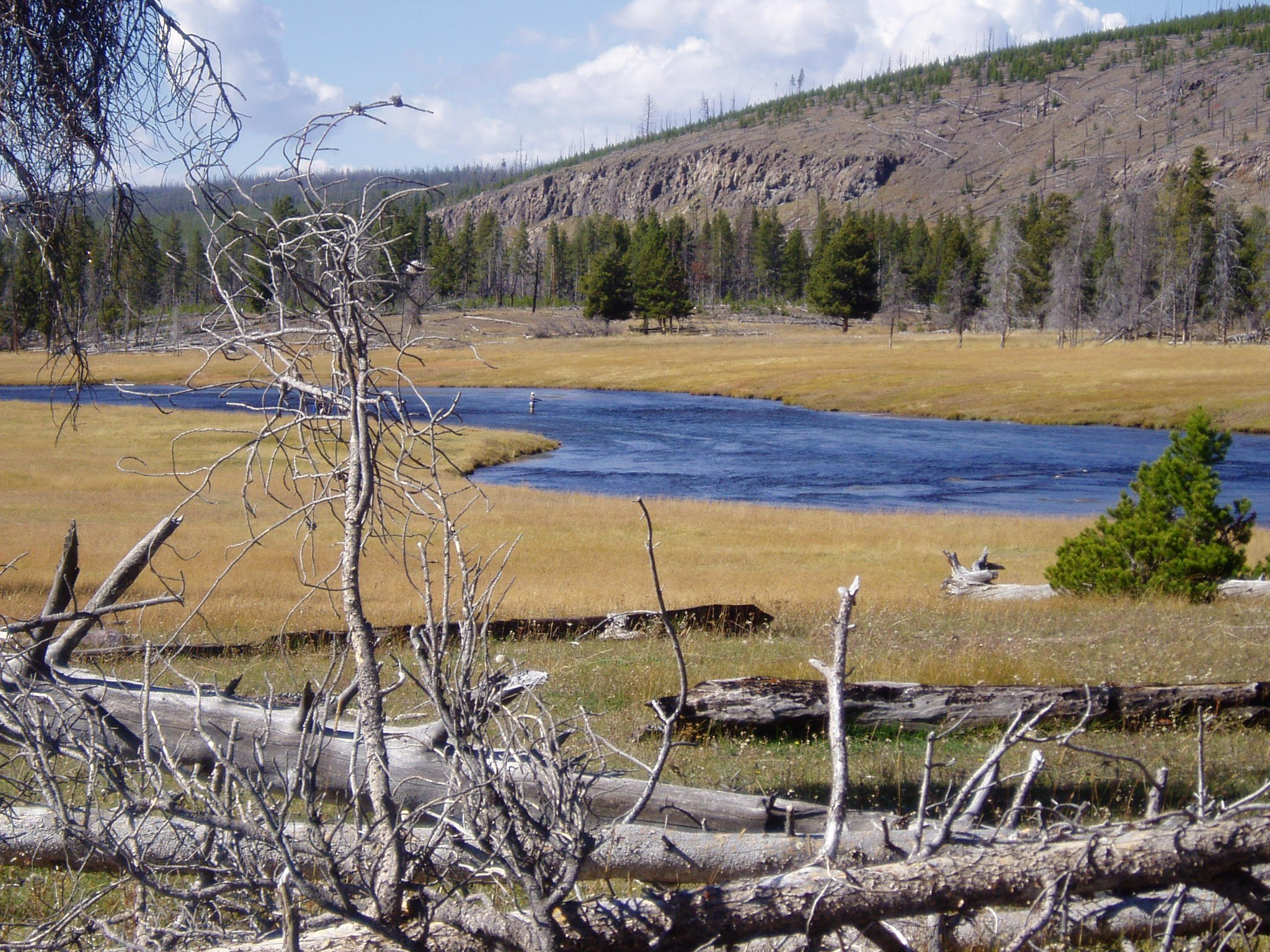 Firehole River at Fountain Flats in September 2004